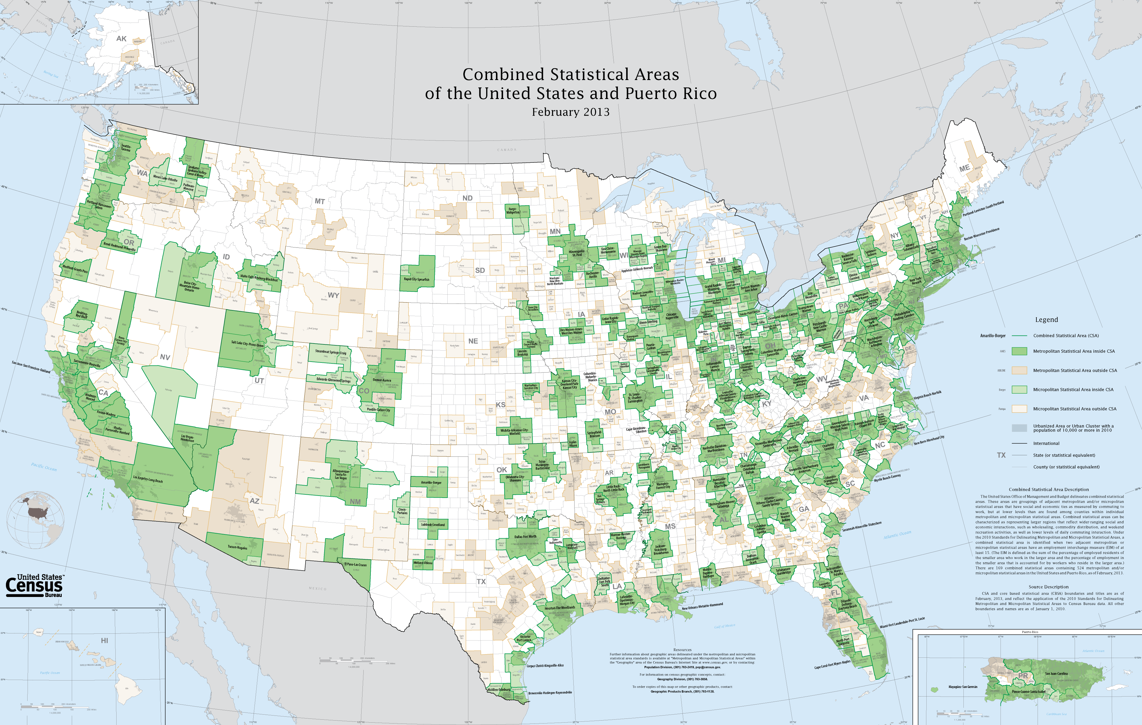 Combined Statistical areas of the United States and Puerto Rico, 2013